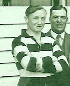 Photo of Leo Hicks in 1943